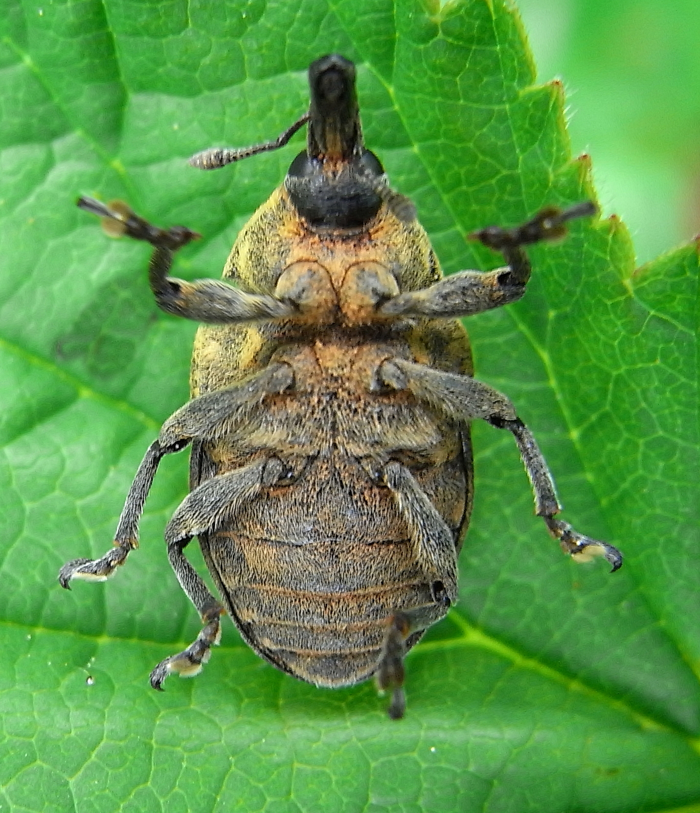 Larinus turbinatus from Southern Germany Ricoh R8